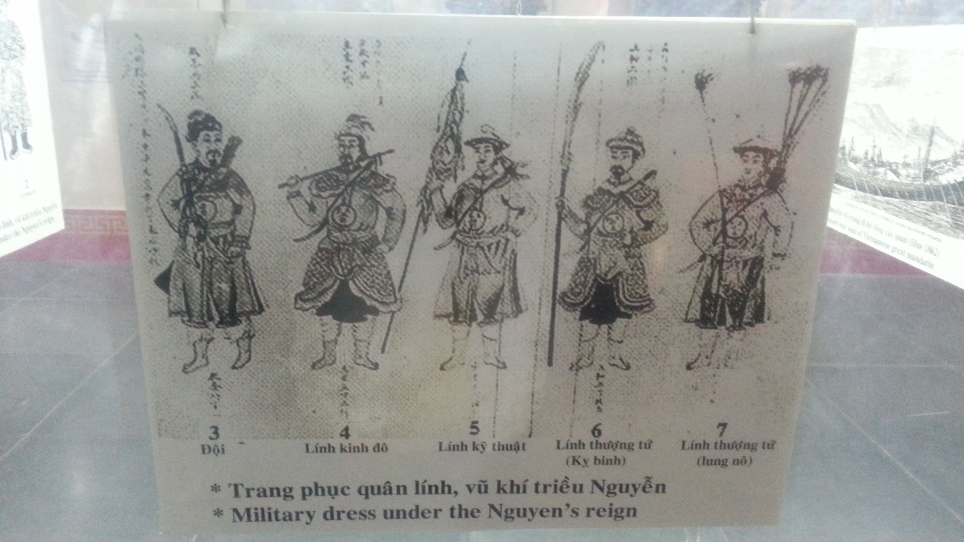 Nguyen dynasty troops.